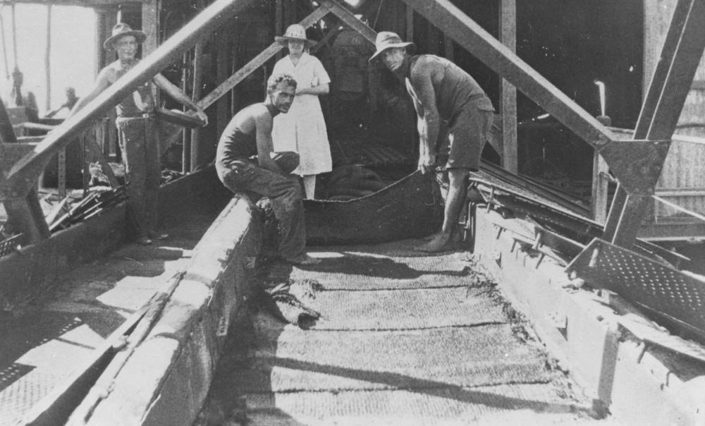 Palmer River gold dredge Mats on the deck collect gold from the river. (Description supplied with photograph.).